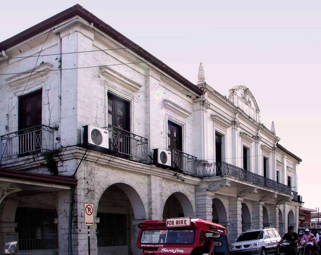 Provincial Capitol Complex of Bohol, the Philippines